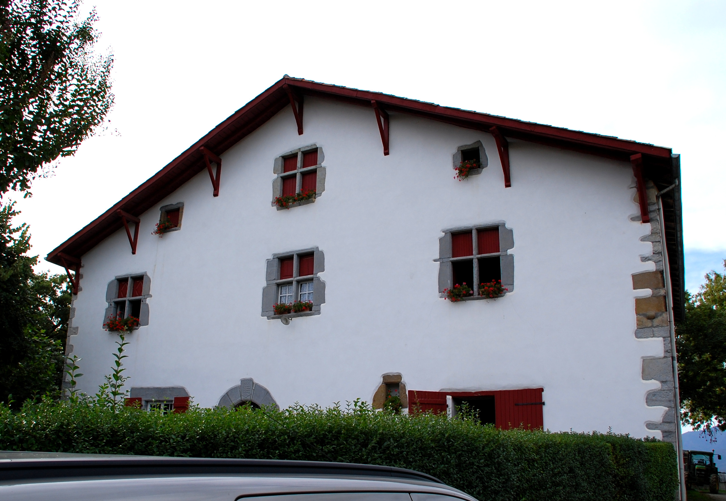 Jauregia